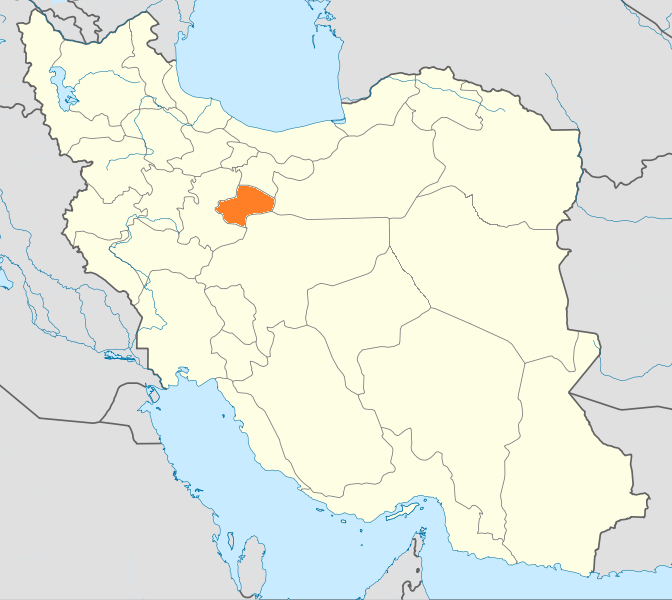 Locator map of Iran